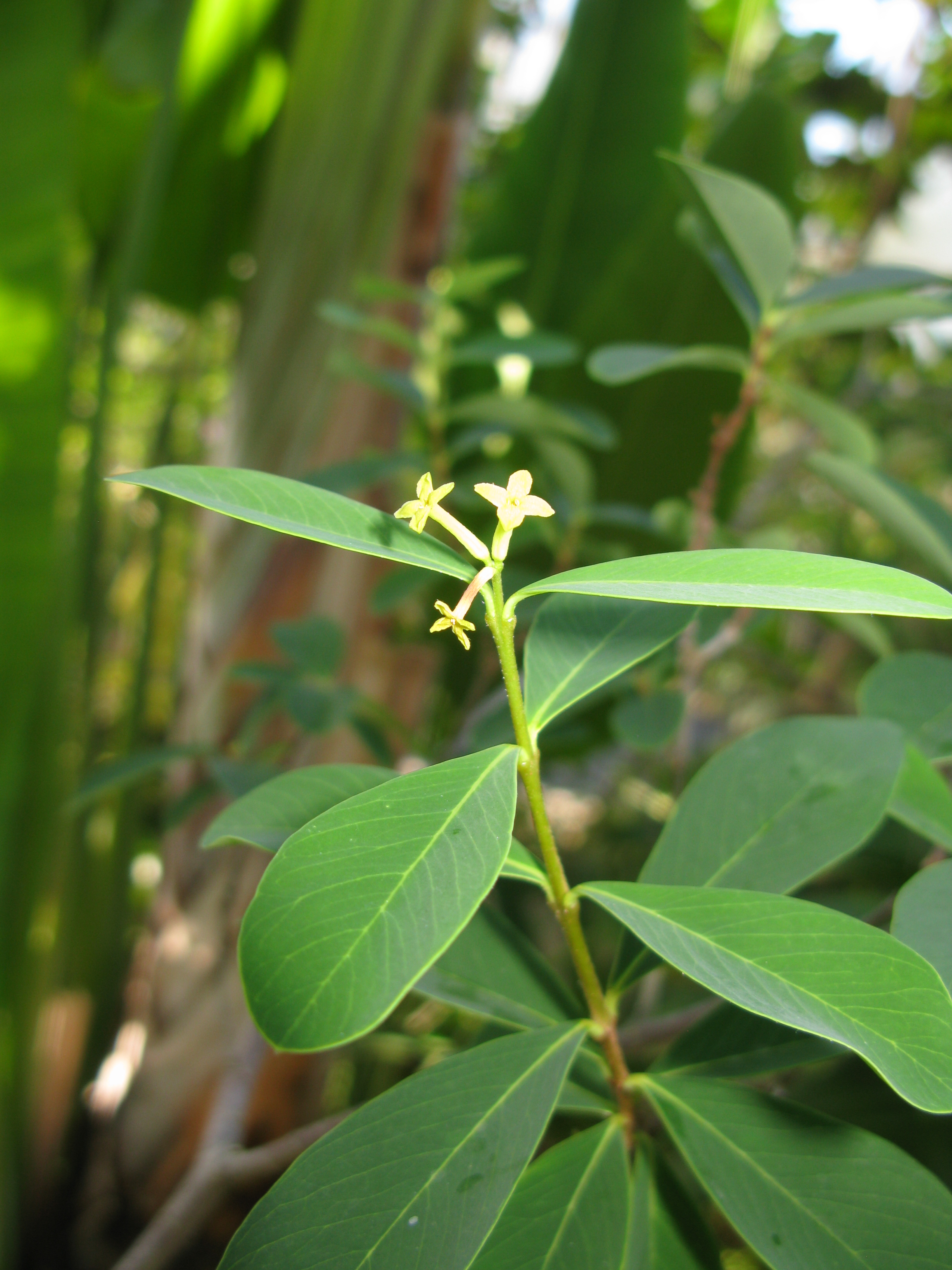 Wikstroemia pseudoretusa, Yumenoshima Tropical Greenhouse Dome, Tokyo, Japan